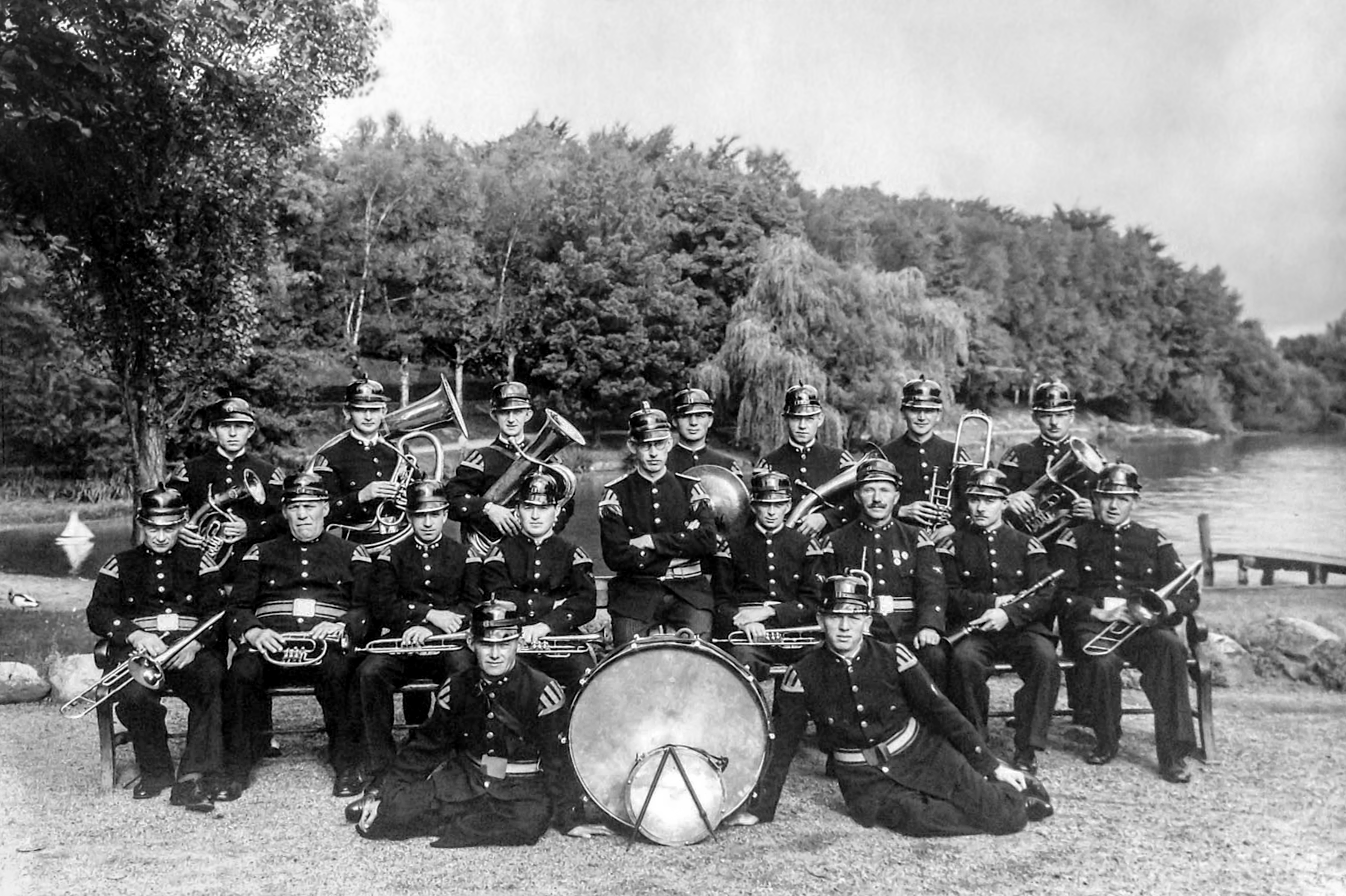 Band of the volunteer Fire Brigade Sonderborg, Denmark. 1939.